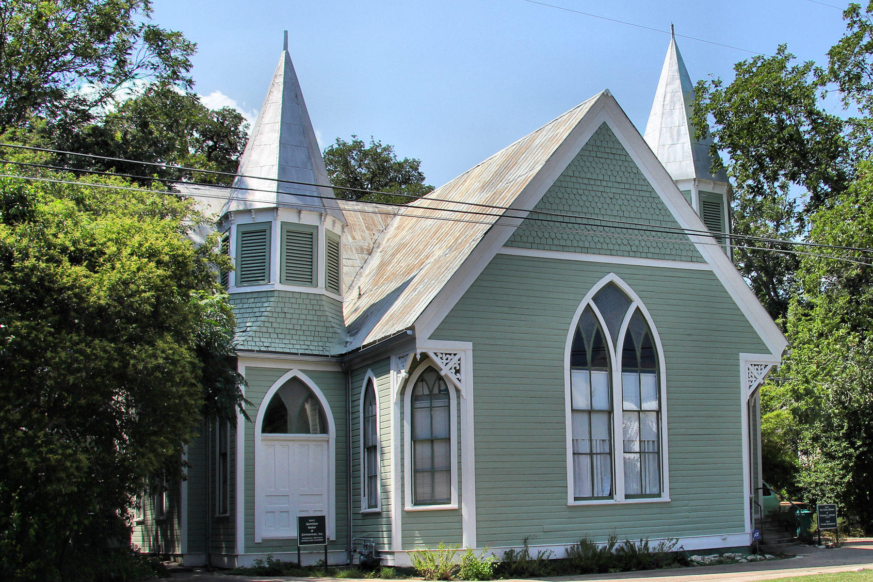 Former Fort Street Presbyterian Church in San Marcos, Texas, United States. The building has been converted to businesses. The building was listed on The National Register of Historic Places on March 23, 1984 and designated a Recorded Texas Historic Landmark in 2001.